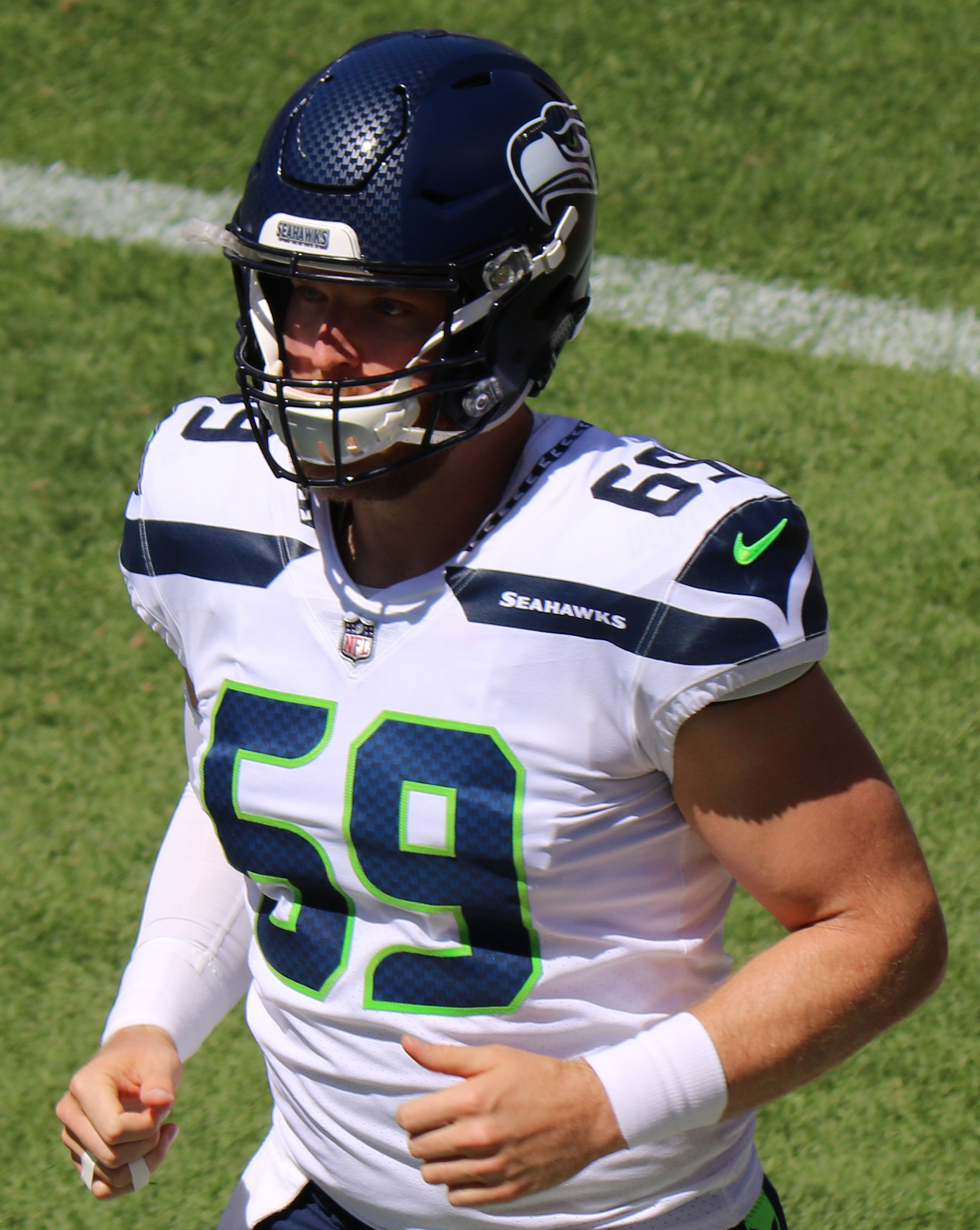 Tyler Ott, a National Football League player.